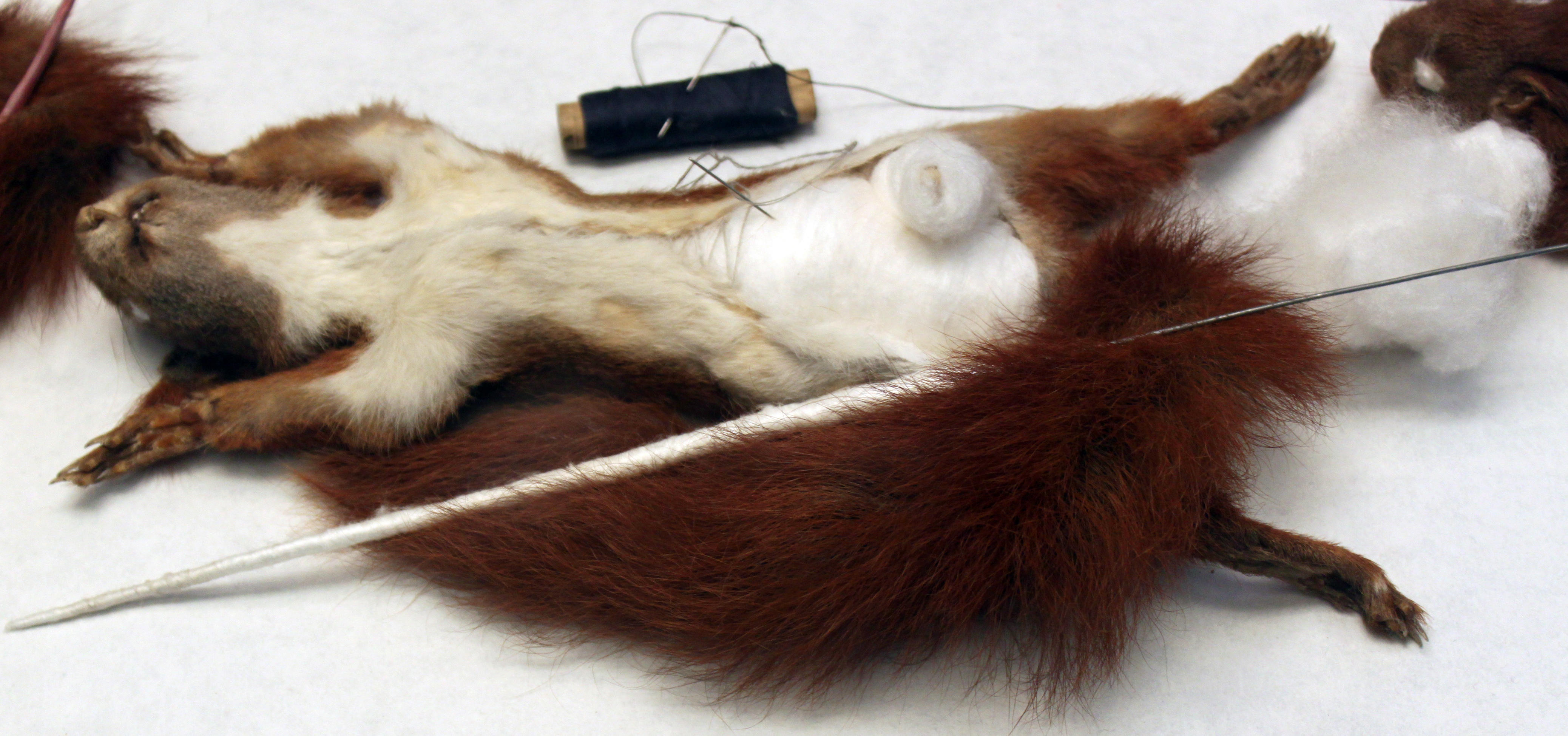 Showcase at the Natural History Museum Berlin: Taxidermy of a squirrel (Sciurus vulgaris). Second step: Stuffing of the skin: The animal skin is filled with cotton wool or fine wood according to the original body volume. Then, the skin is sewn up.